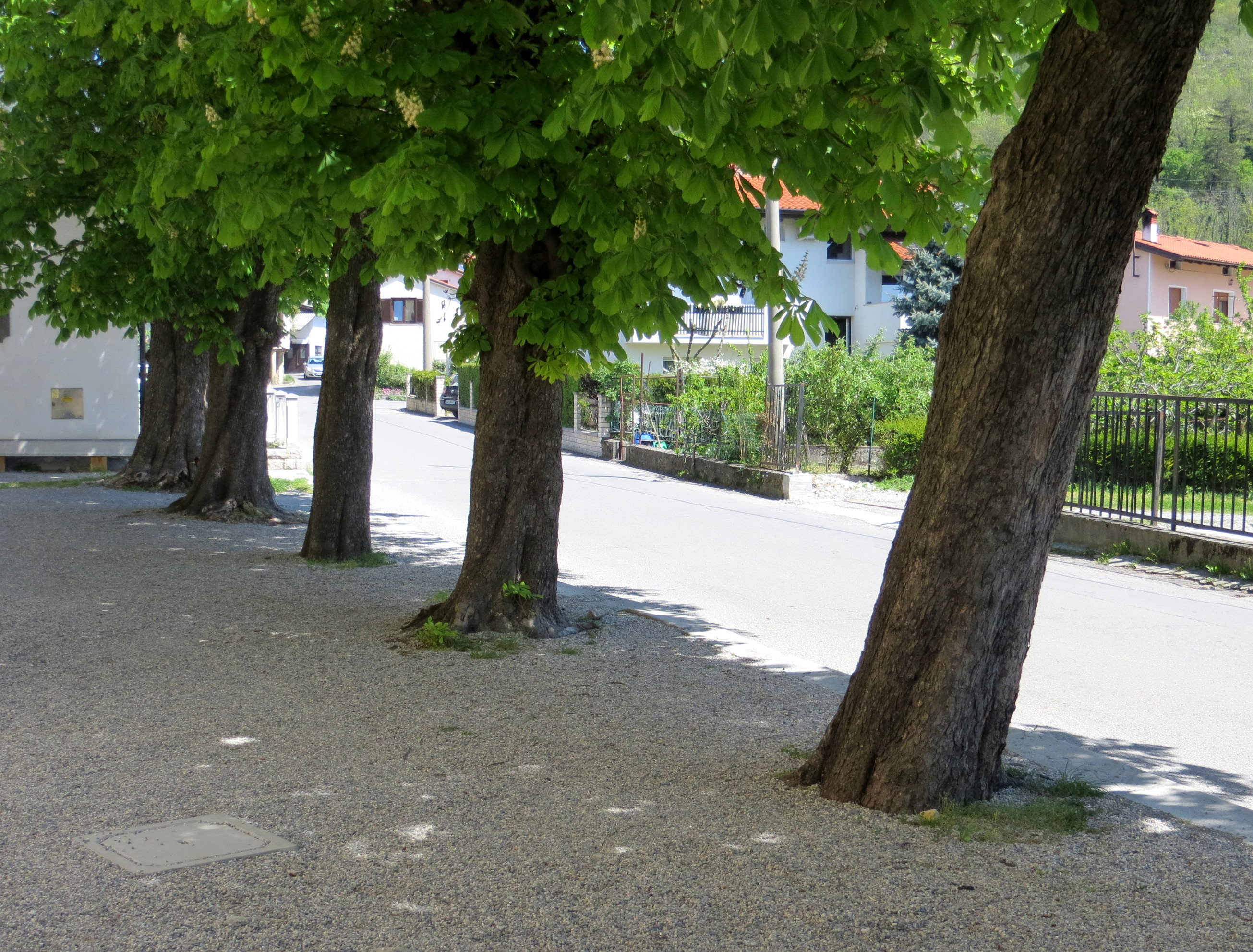 The Church Grave (Slovene: Grobišče ob cerkvi) is one of two unmarked graves from the Second World War in Vrhpolje, It is located in the middle of the tree-lined avenue (between the fourth and fifth trees) by the parish church. It contains the remains of a German soldier killed near Vipava during the war.